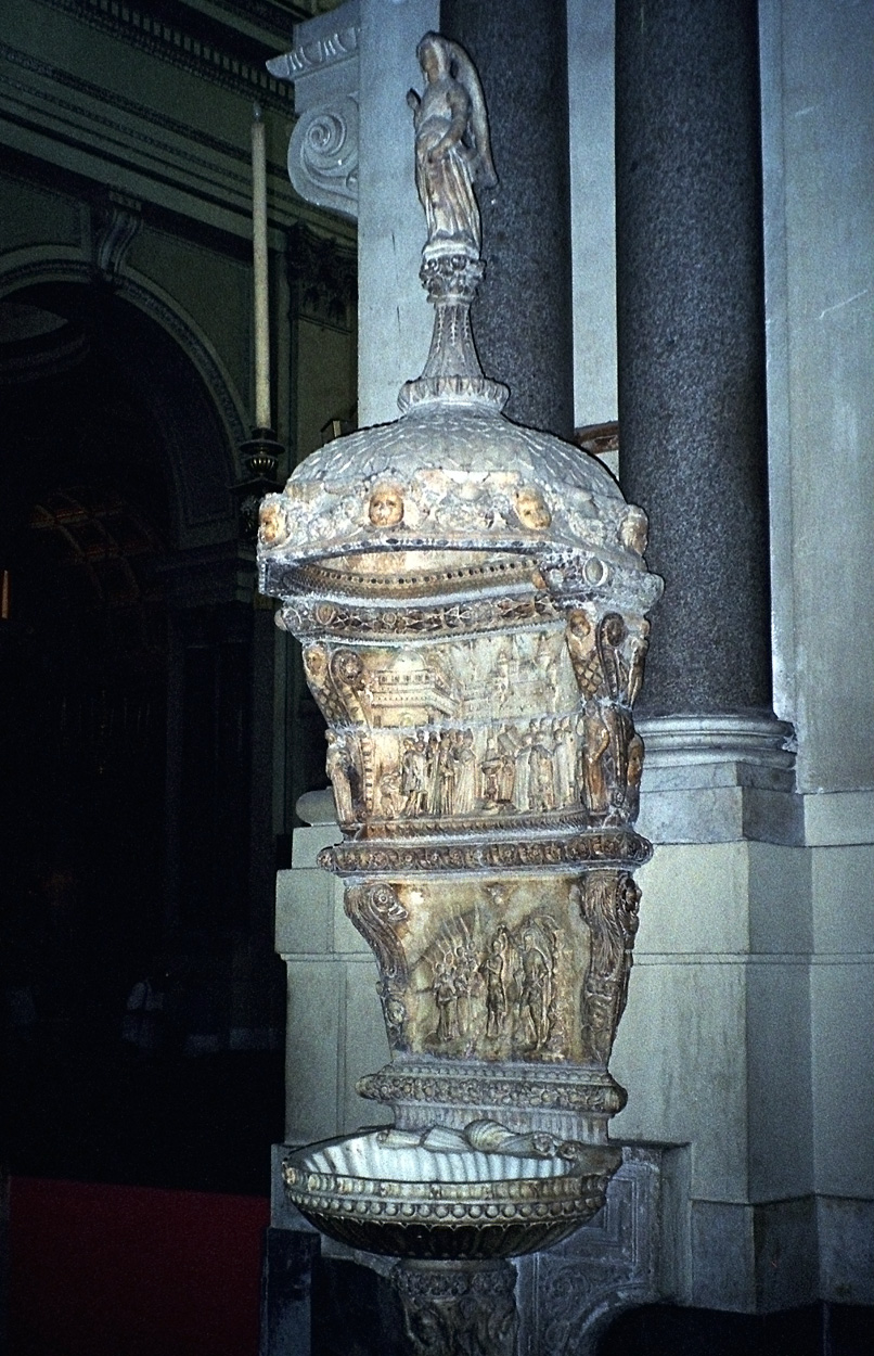 A stoup by Domenico Gagini, dating from 15th century, in the Cathedral of Palermo (Sicily).